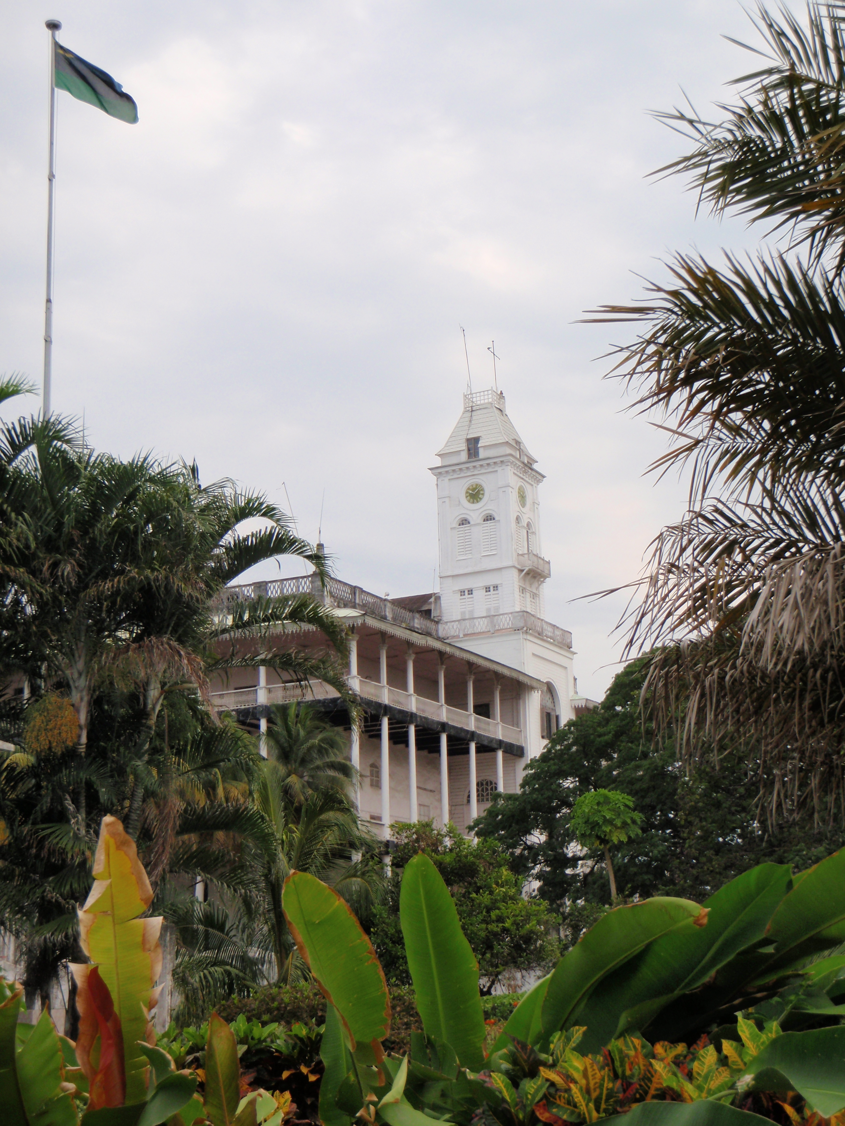 Beit al Ajaib (House of Wonders) in Stone Town, Zanzibar City.